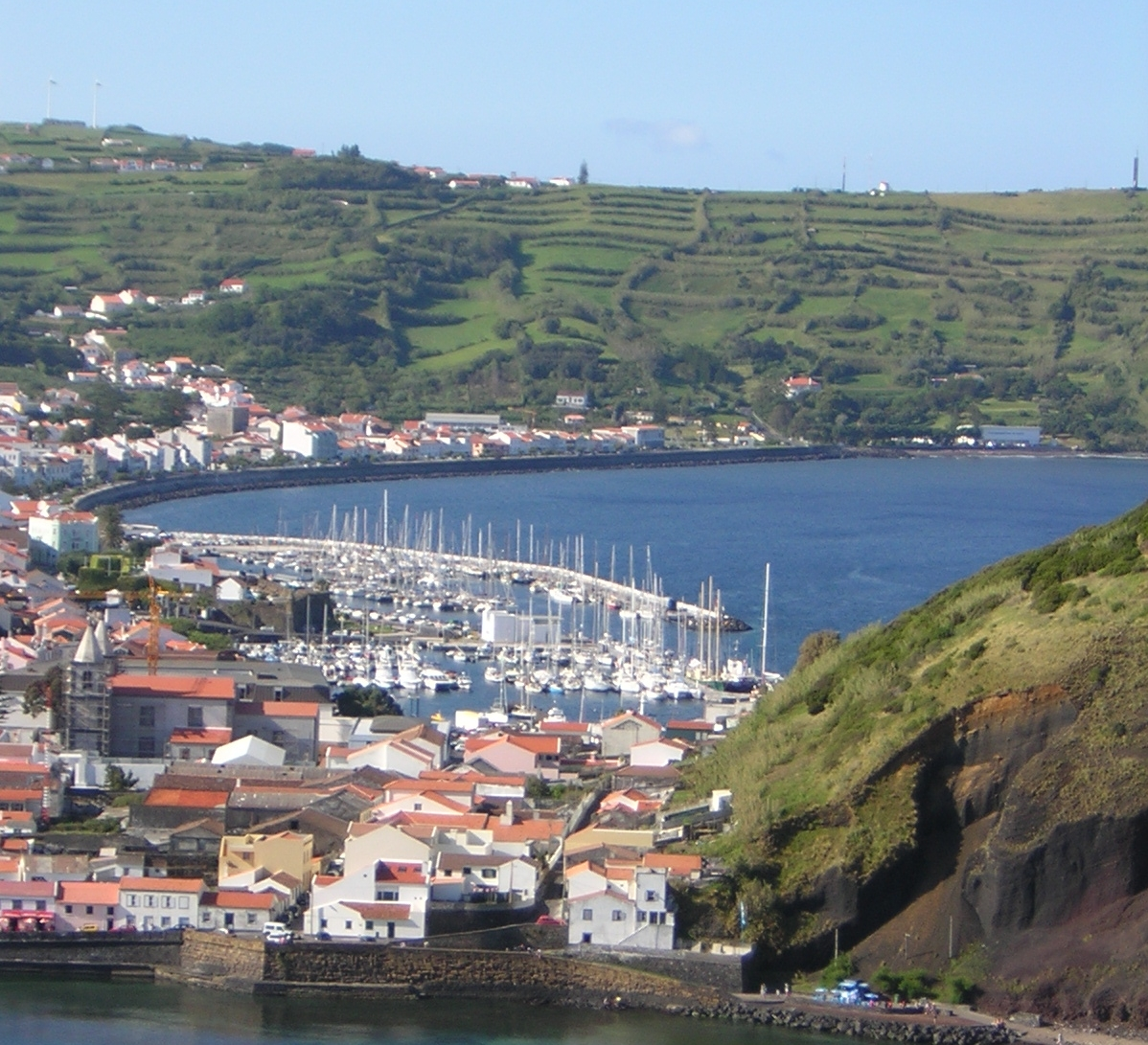 Part of the parish of Angústias, Horta, including the marina, looking north toward Esplamaca, Angústias, Horta, Faial (Azores), Portugal